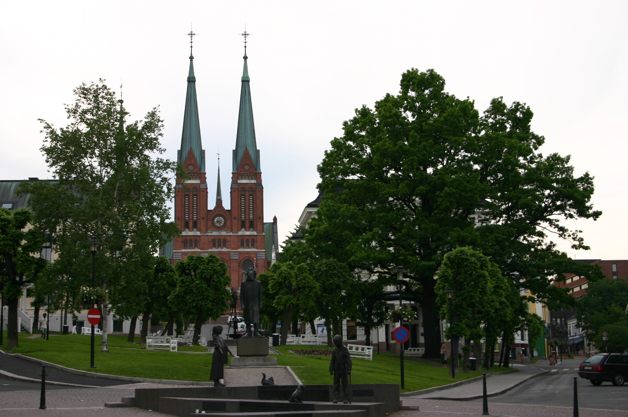 Skien church